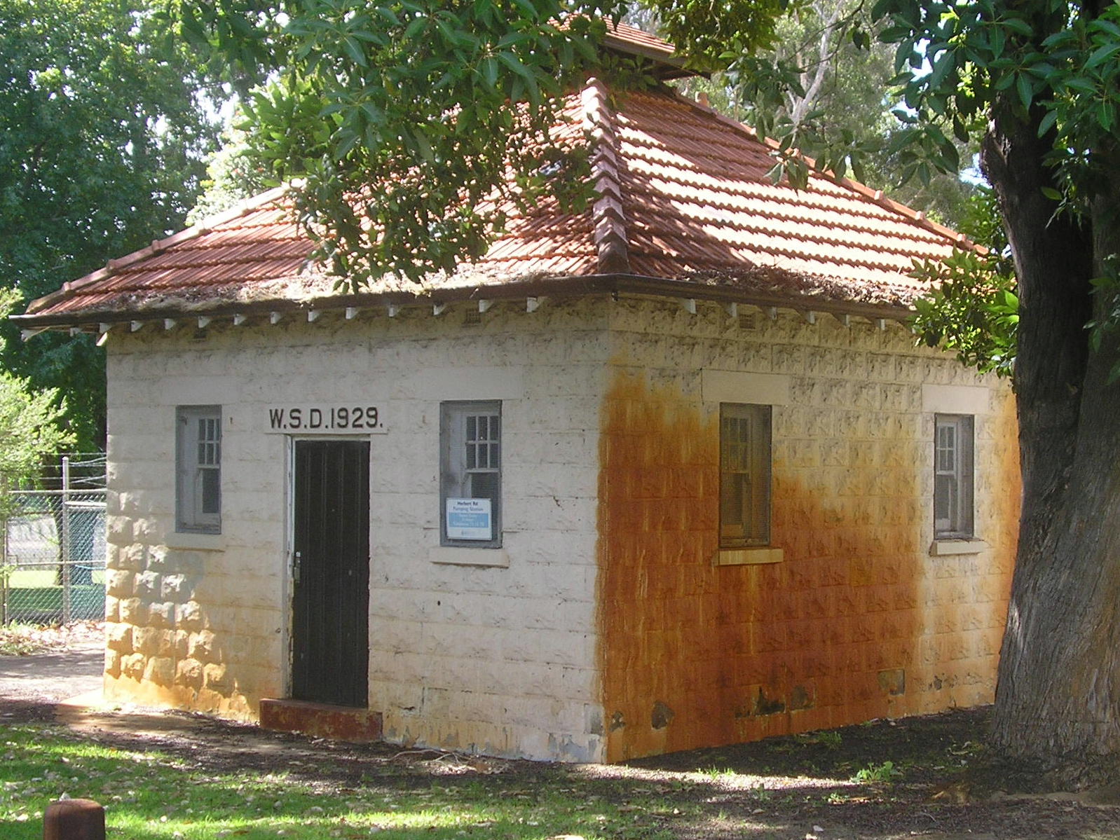 Groundwater pollution on a limestone building. Building located in Perth, Western Australia